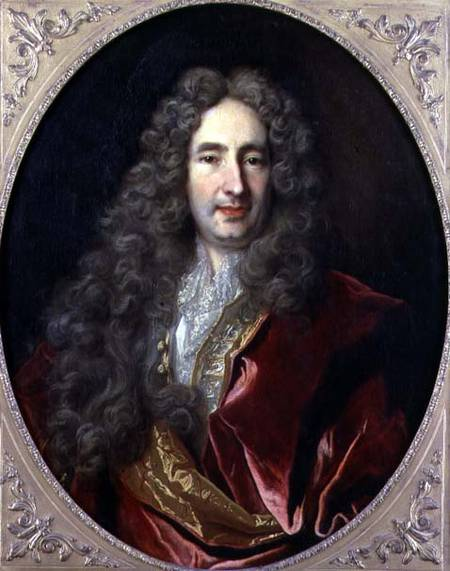 Portrait at bust-length of Edme Boursault (1638–1701)